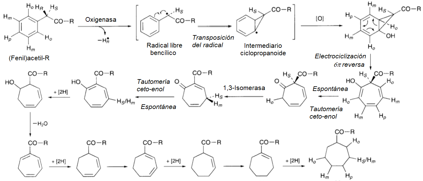 Cycloheptane core biosynthesis for omega cycloheptyl fatty acids